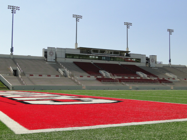 View of Bud Leonard Field at Provost Umphrey stadium looking towards the home side seating and press box.